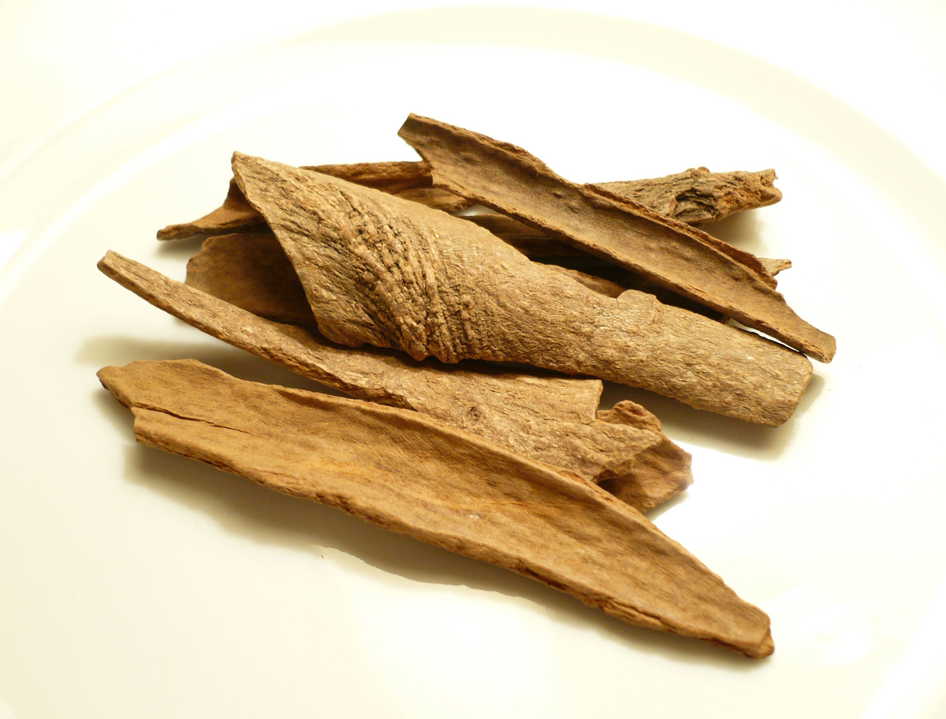 Saigon Cinnamon bark. Photo taken in Kent, Ohio with a Panasonic Lumix digital camera (model DMC-LS75).Saigon Cinnamon bark purchased from The Spice House, United States.